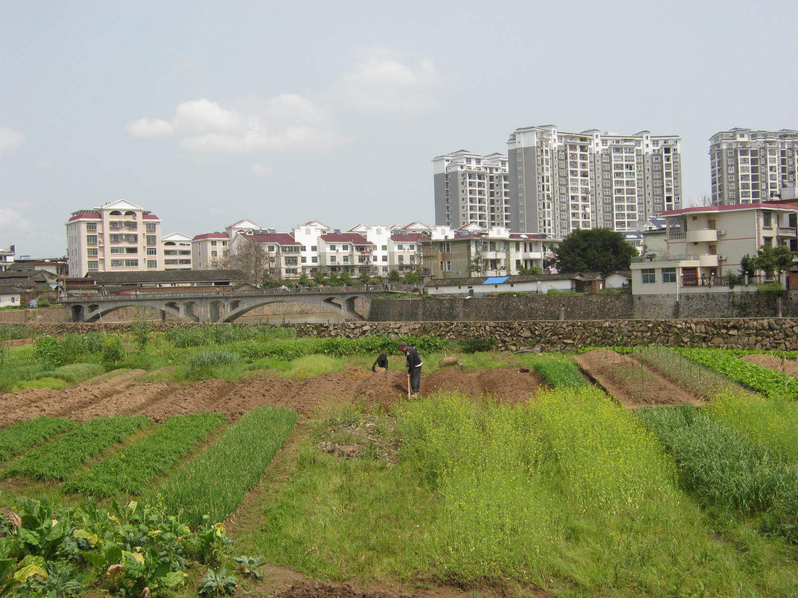 LianCheng